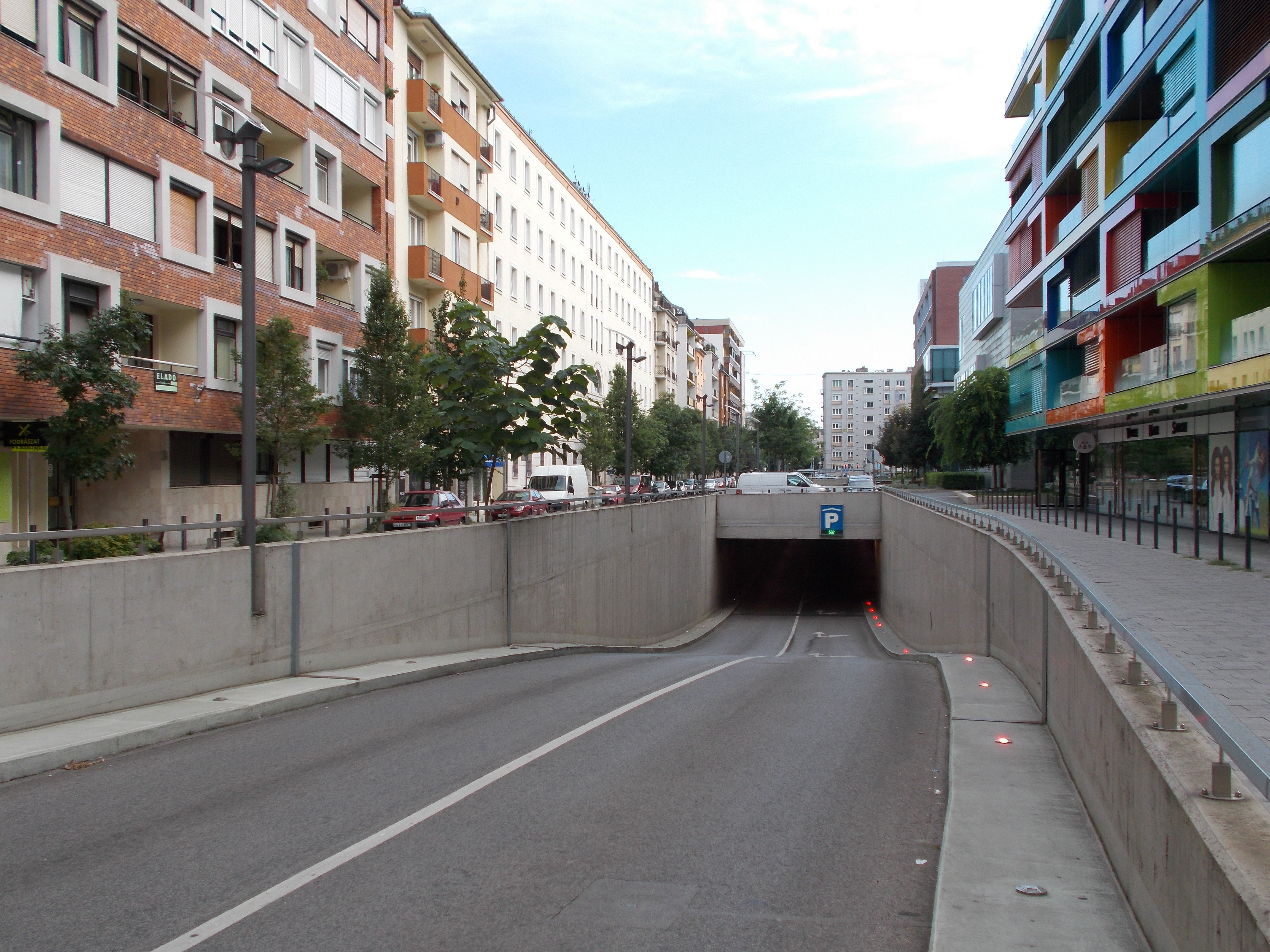 Allee Shopping Center. Parking entrance. - Irinyi József Street, Budapest District XI.